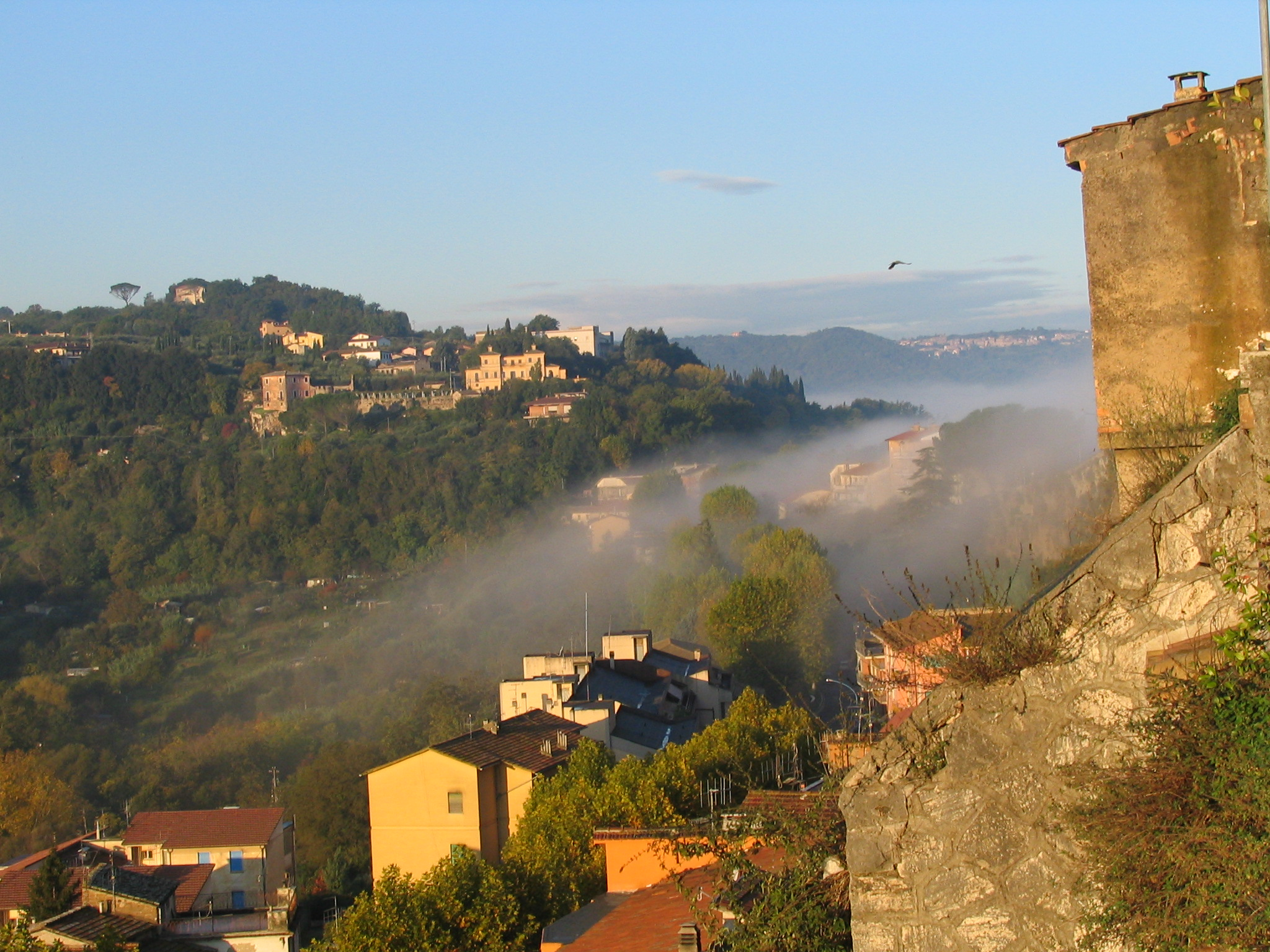 Orte (VT) Italy